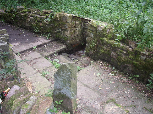 Gunthwaite Spa. This is a strongly tasting spring that is supposed to have healing qualities and was at one time blessed annually by religious leaders from Wakefield, Doncaster and Pontefract.